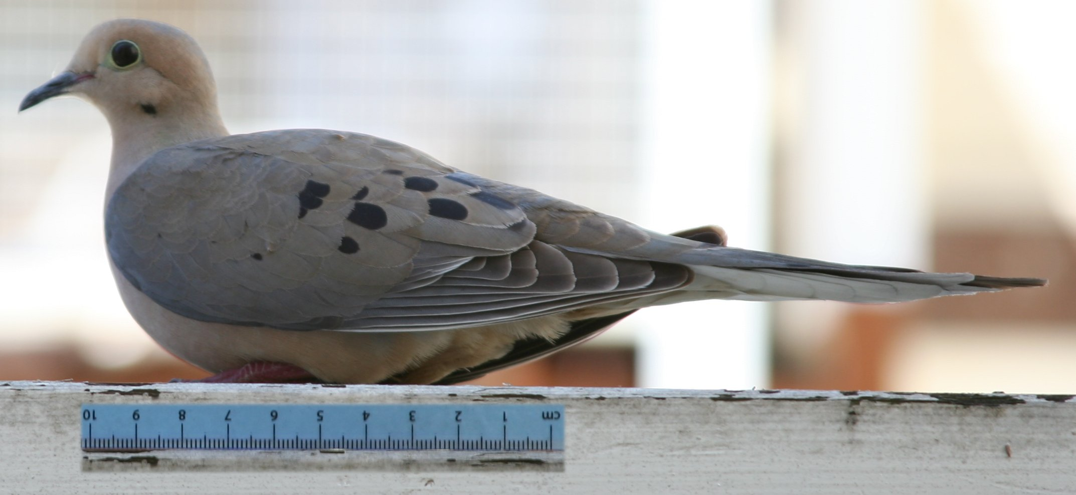 Zenaida macroura ("Mourning dove") composited with shot of centimeter rule placed where bird was. Approximately 9.2 pixels per millimeter (at full resolution.) San Francisco, CA.